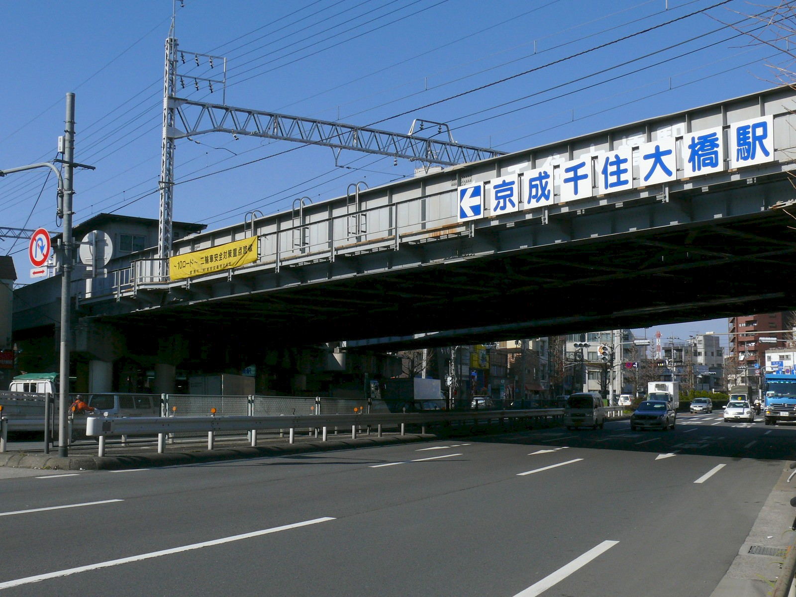 Keisei Electric Railway Keisei Line Senjuōhashi Station (Japan, Tokyo). The left side of the image becomes a station.